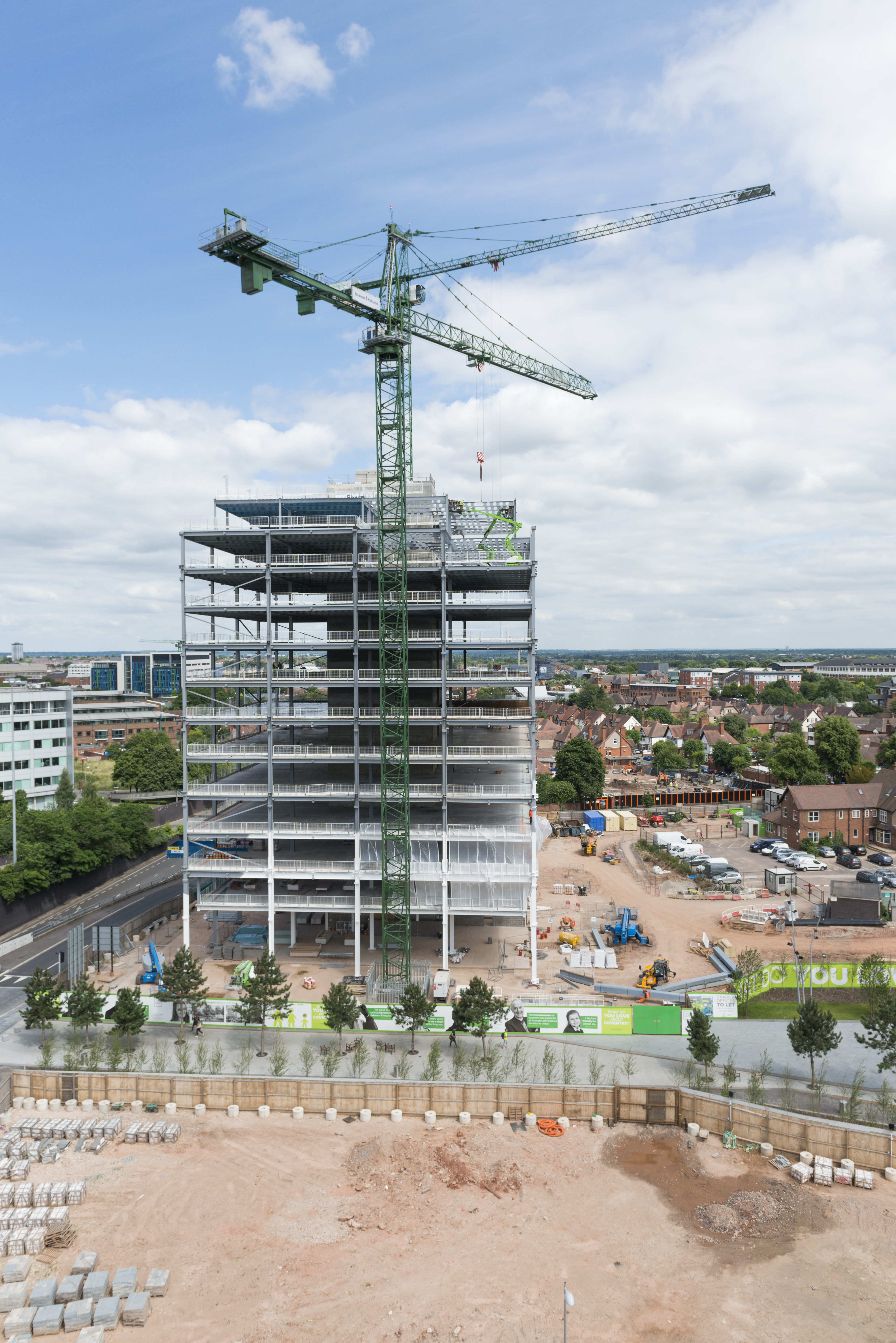 One Friargate under construction, July 2016